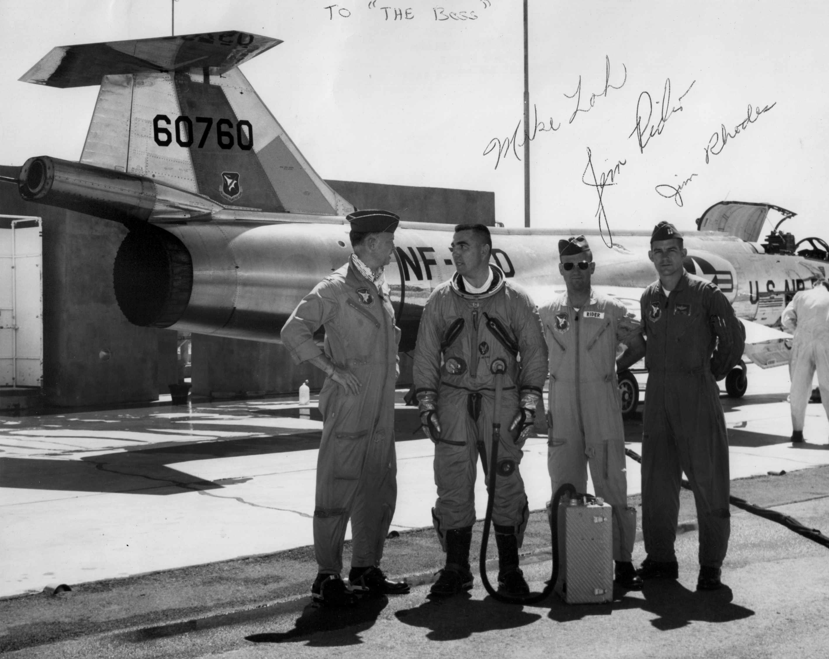 United States Air Force (USAF) Aerospace Research Pilot School (ARPS) commandant Eugene Deatrick (51A), student Mike Loh (67B), and instructors Jim Rider (65C) and Jim Rhodes (66A) in front of Lockheed NF-104A s/n 56-0760.